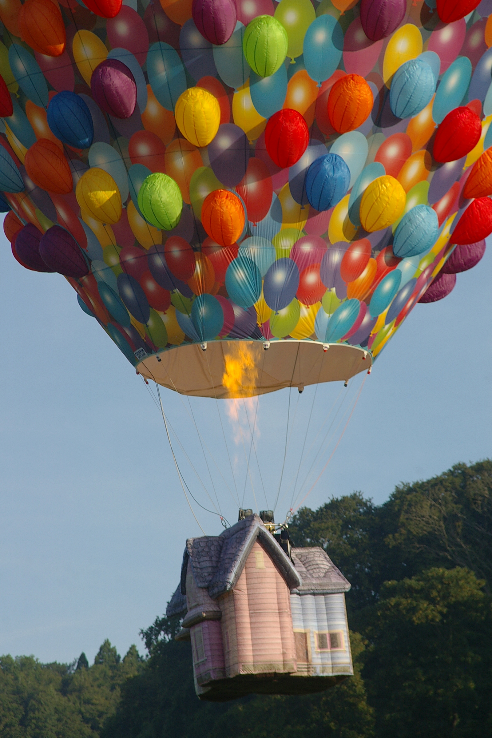 The "Up" balloon at the Bristol Balloon Fiesta.